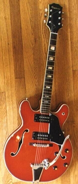 Epiphone 5102T guitar (later EA-250 / EA-250 Riviera)